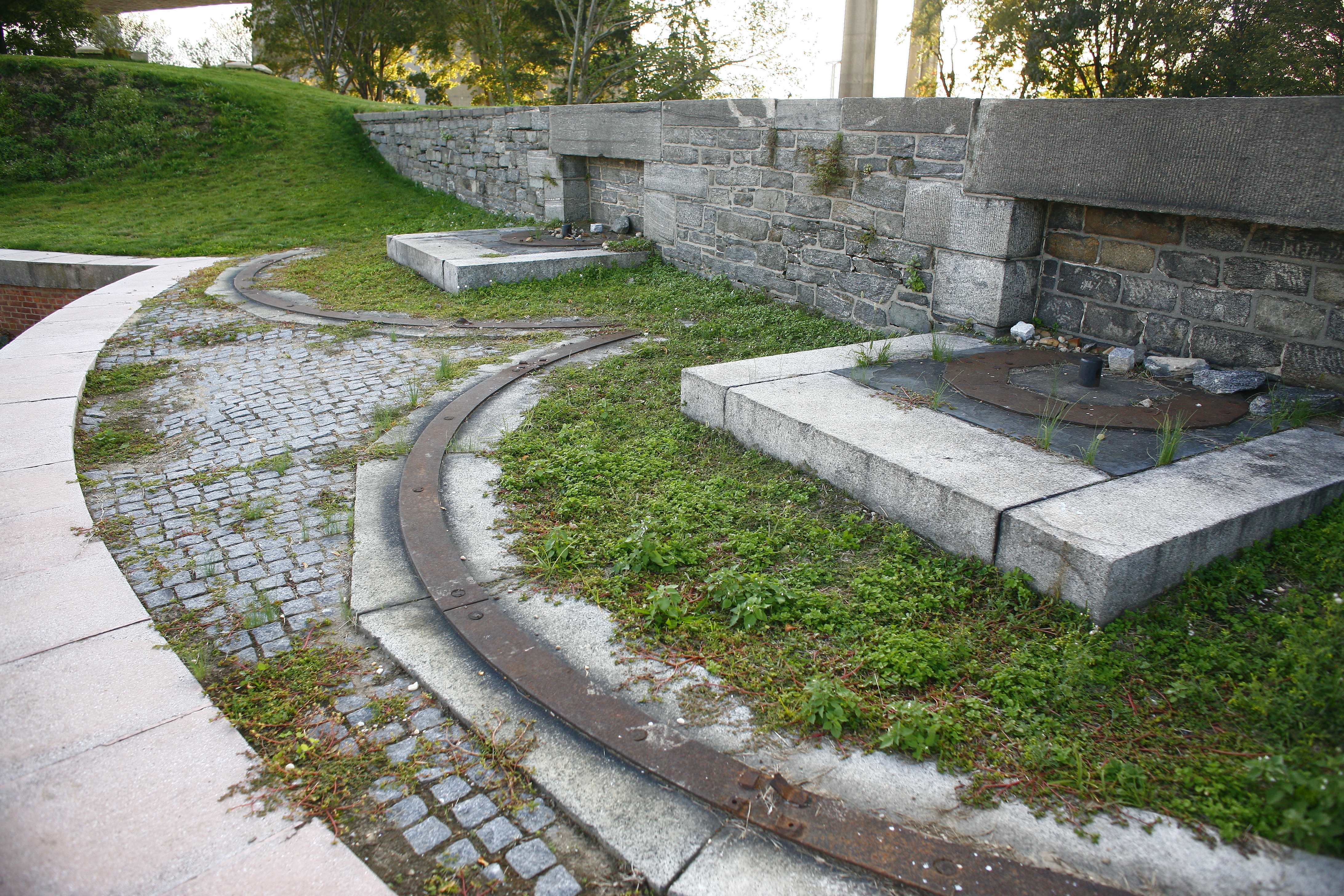 This photo is of Wikis Take Manhattan goal code N10, Fort Schuyler, Bronx.